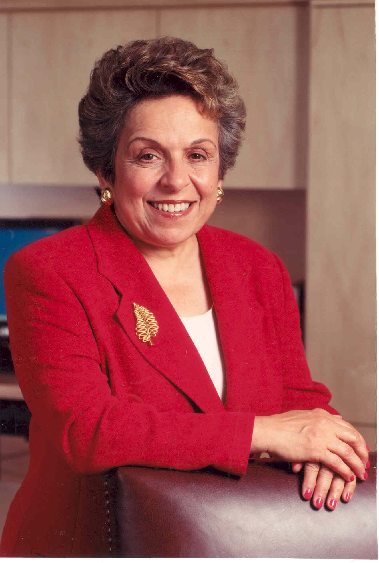 Donna Shalala's President's Commission on Care for America's Returning Wounded Warriors portrait